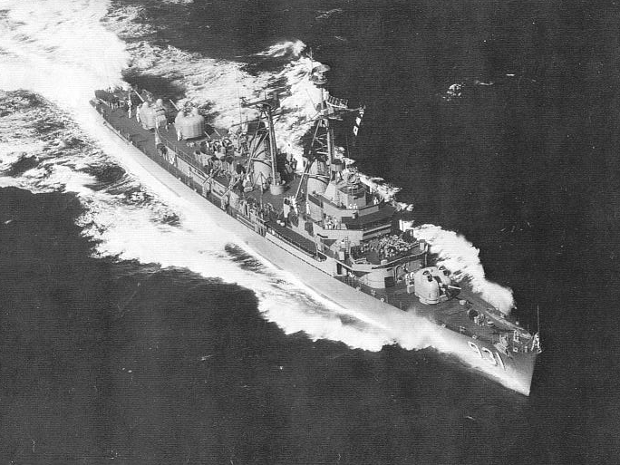 A U.S. Navy destroyer USS Forrest Sherman (DD-931) underway, circa in 1958.